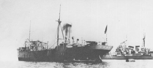 IJN oiler SHIRETOKO and heavy cruiser CHOKAI(right) at Yokosuka Naval Base.